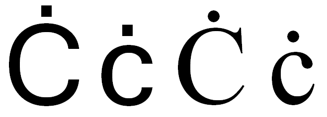 Latin_letter_Ċċ.